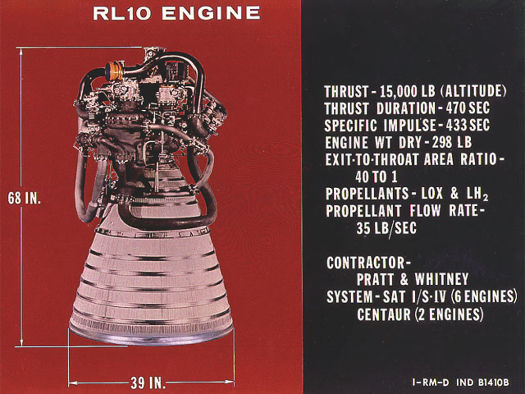 RL-10 engine characteristics. The RL-10 engine was developed under the management of the Marshall Space Flight Center (MSFC) to power the Saturn I upper stage (S-IV stage). The six RL-10 engines, which used liquid hydrogen and liquid oxygen as propellants, were arranged in a circle on the aft end of the S-IV stage.